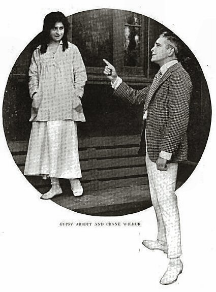 Gypsy Abbott and Crane Wilbur in the American film Vengeance Is Mine! (1916) directed by Robert Broadwell.